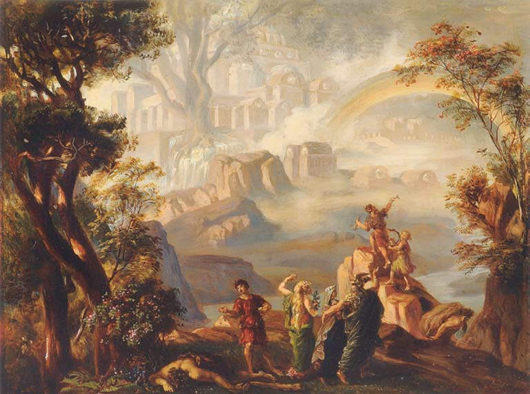 Siegfried returns to the Hall of the Gibichungs in act 2, scene 1 of Götterdämmerung.